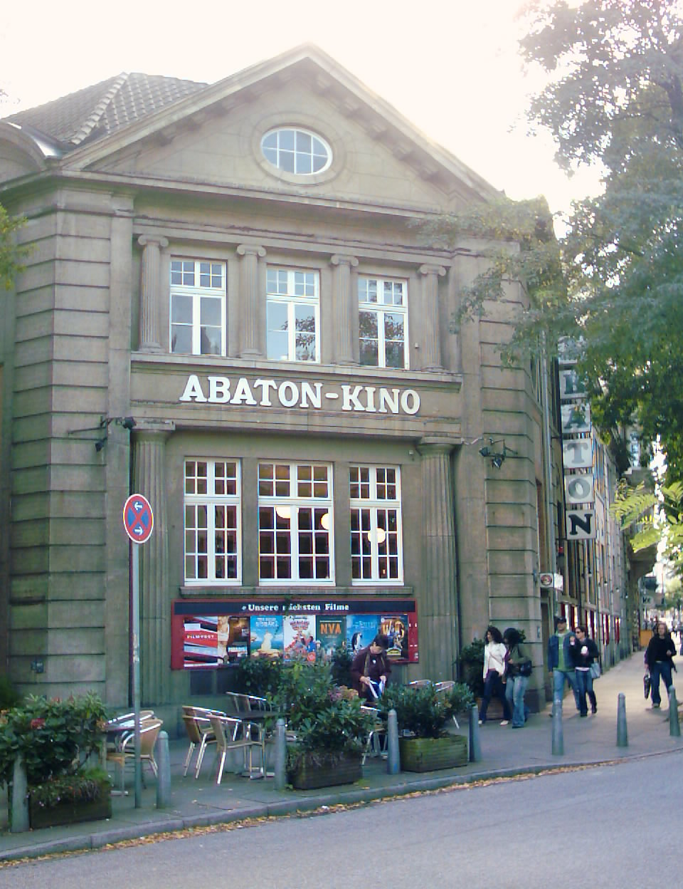 The cinema Abaton in Hamburg, Germany.